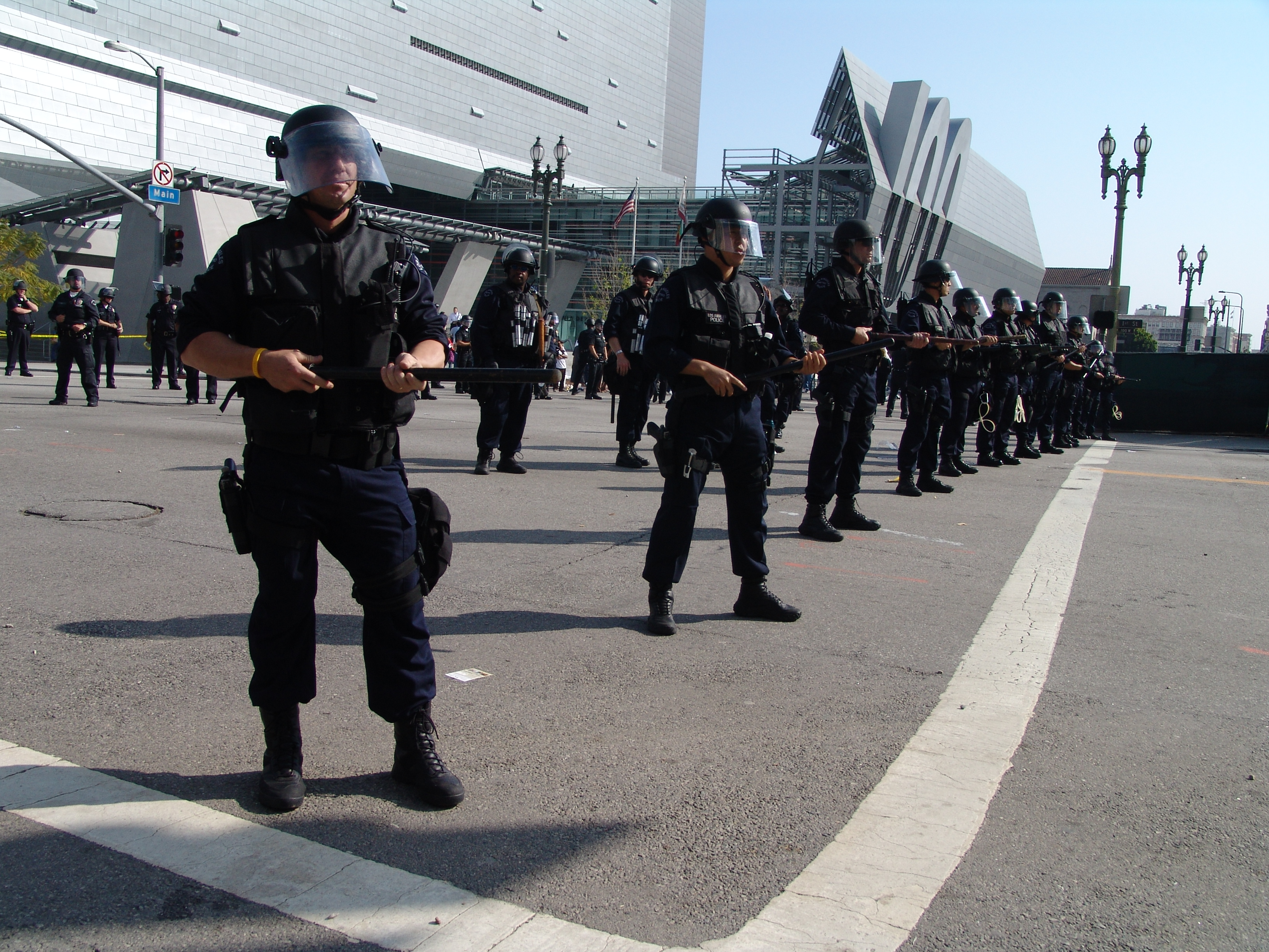 Immigrant rights march for amnesty in downtown Los Angeles, California on May Day, 2006.